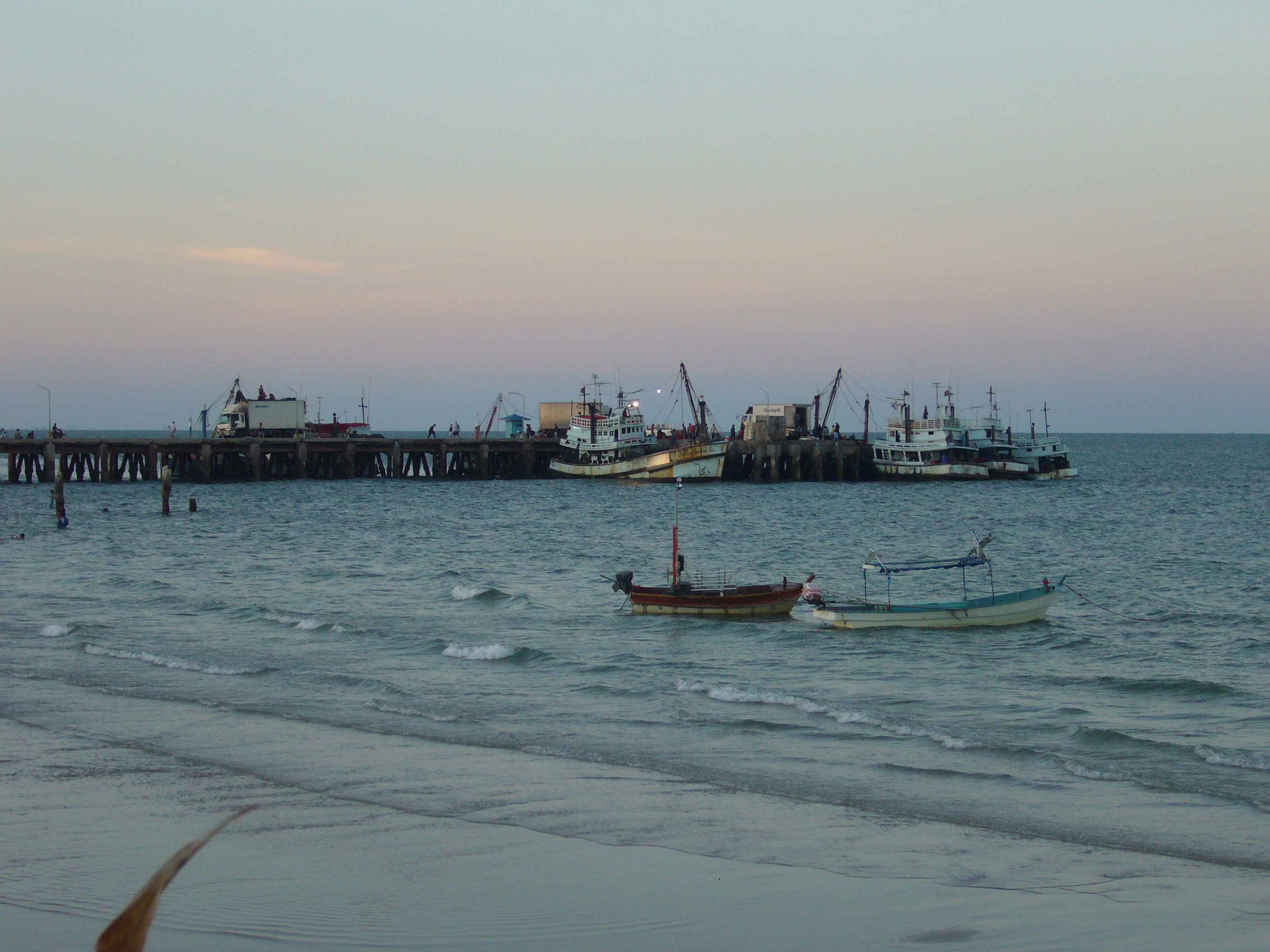 Hua Hin fishing boats